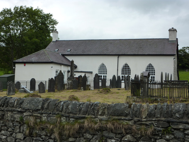 Schoolhouse in the churchyard at Yystrad Meurig